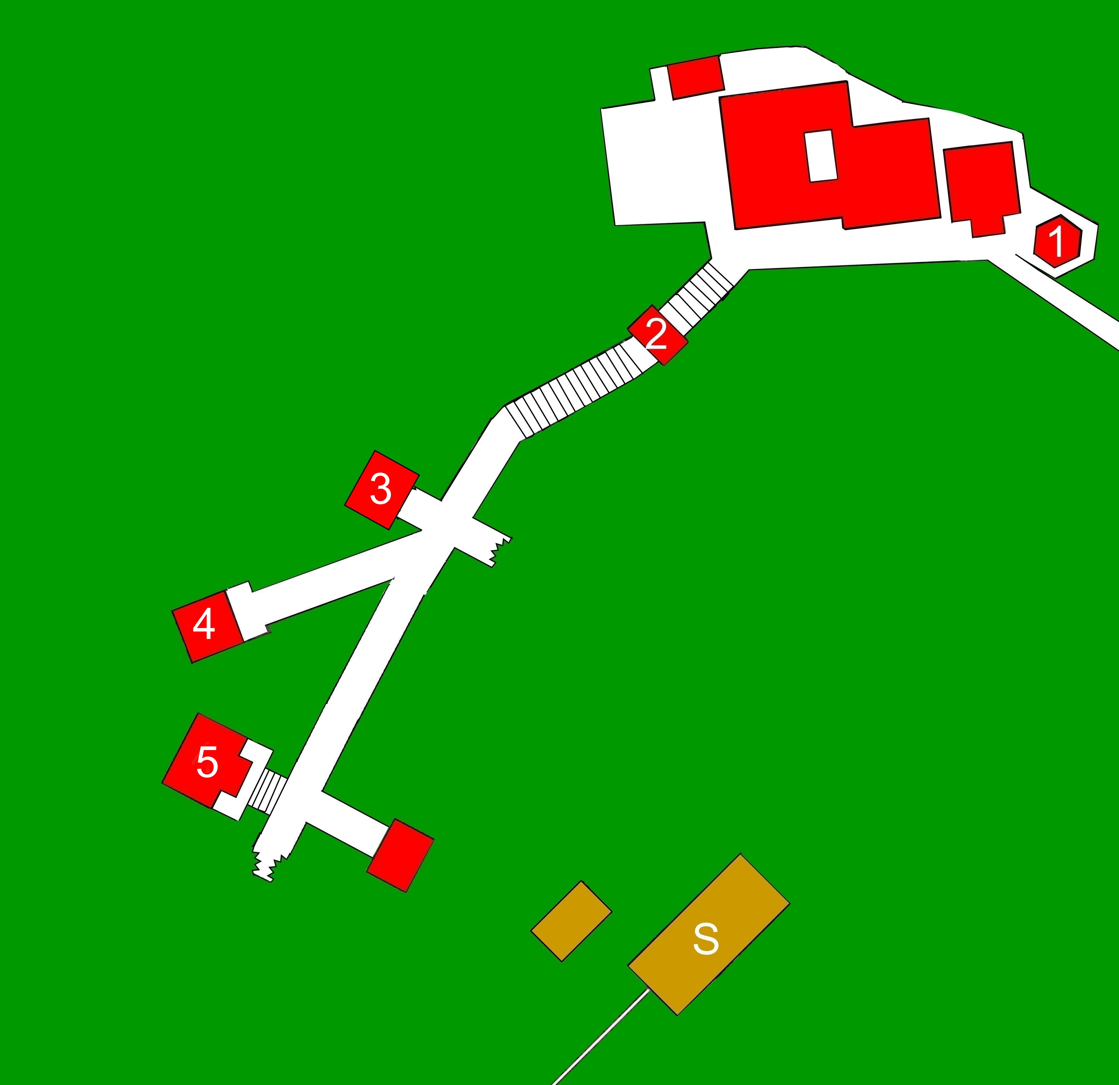 Layout of Tairyûji (Anan), Japan